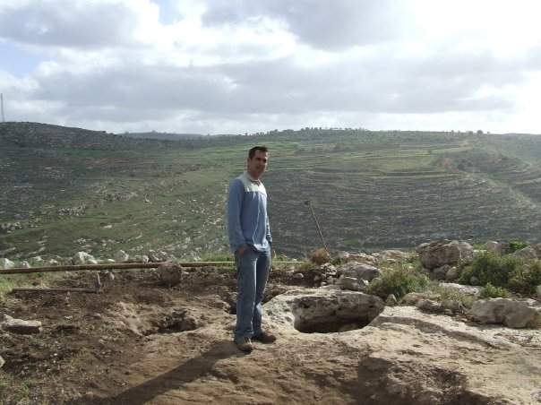 Old wine press near Givat Harel